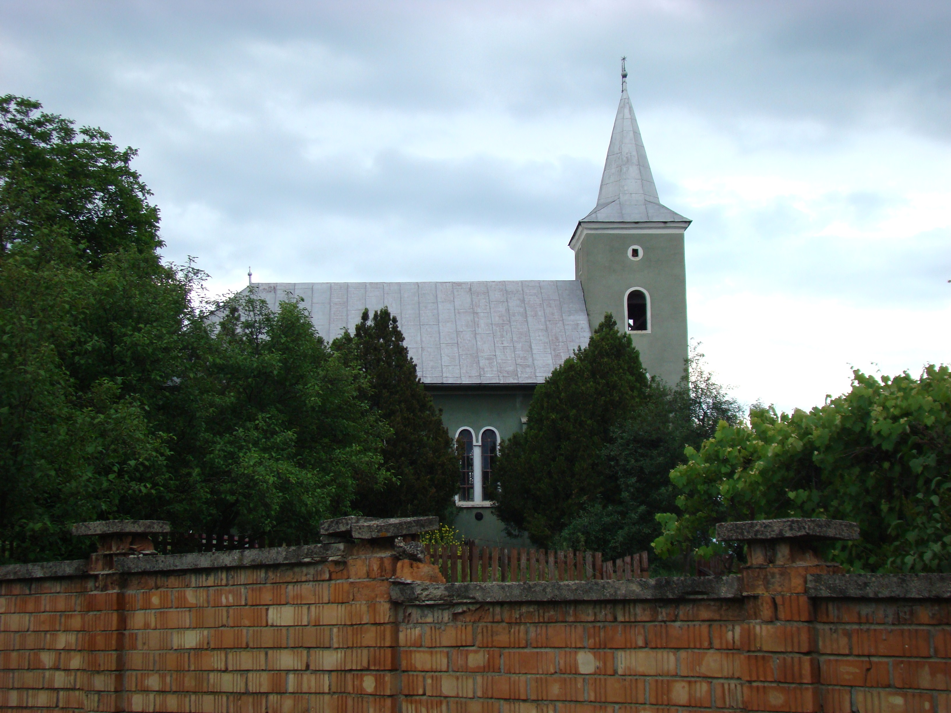 Vechea, Cluj county, Romania